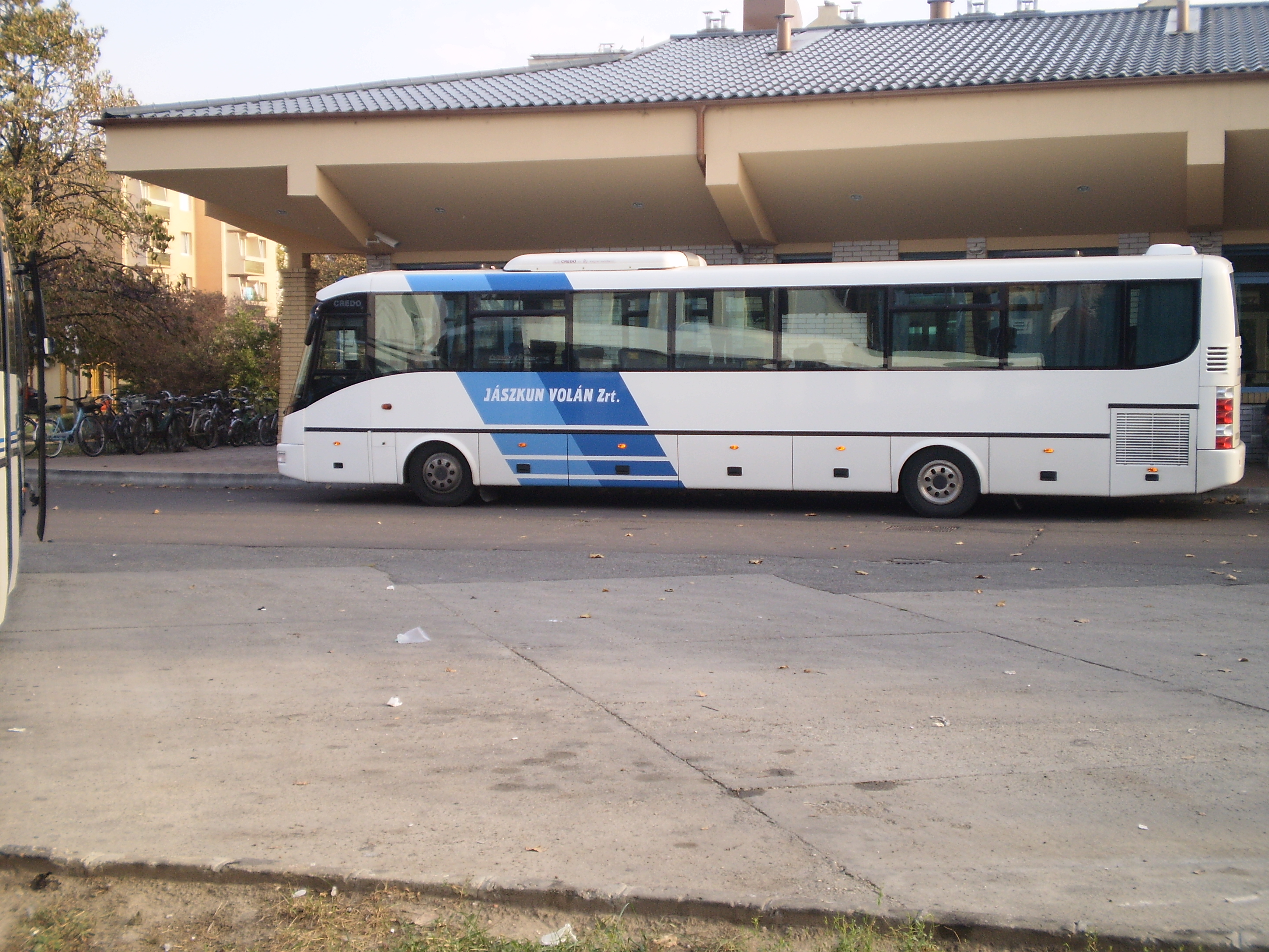 Jászkun Volán bus in Szentes, Hungary